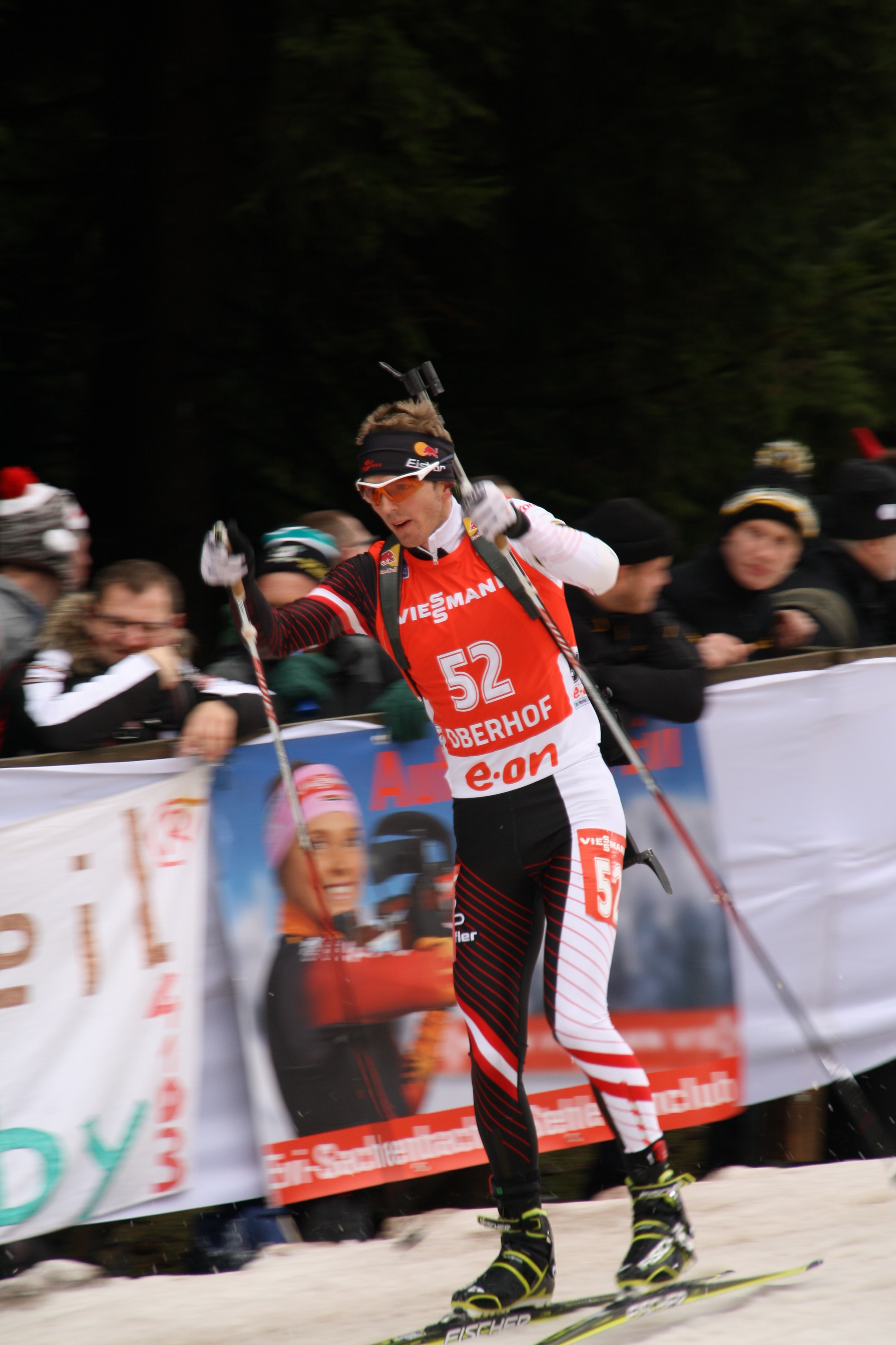 Biathlon World Cup Oberhof 2014 - Mens Pursuit